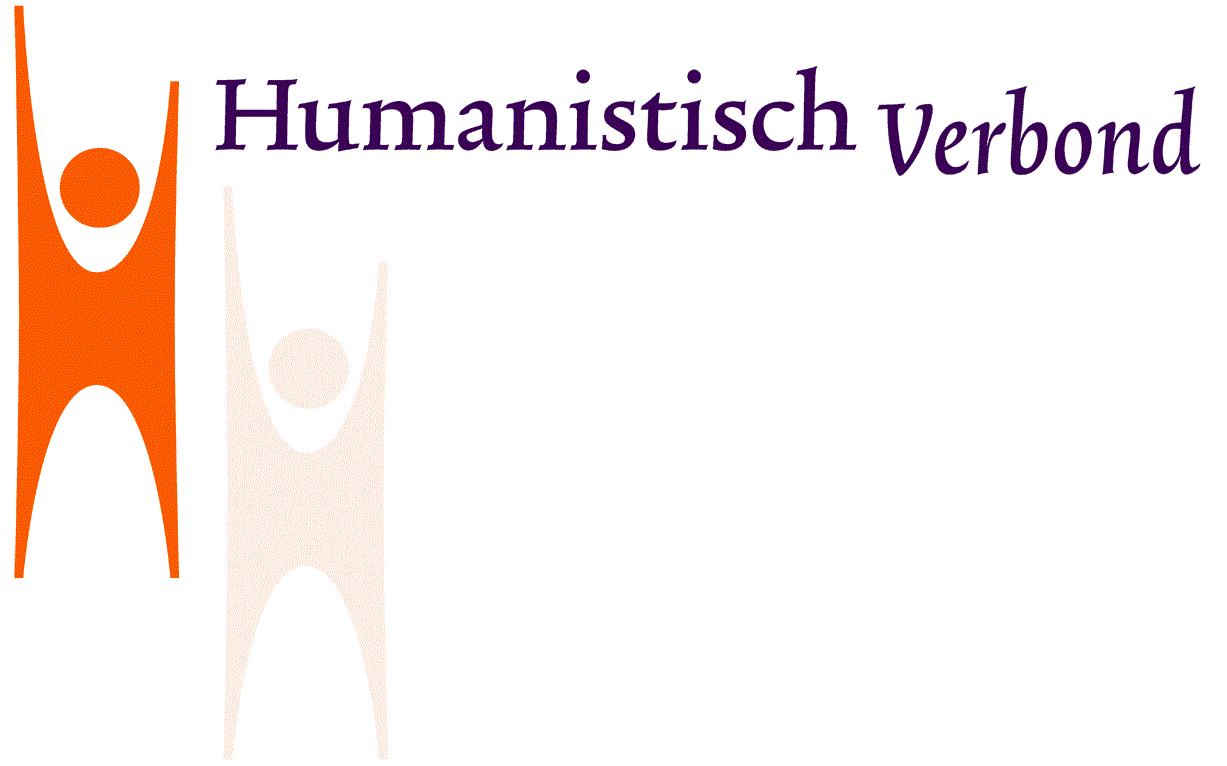 Logo of the Humanistisch Verbond (HV), variously rendered in English as (Dutch) Humanist Association or (Dutch) Humanist League.